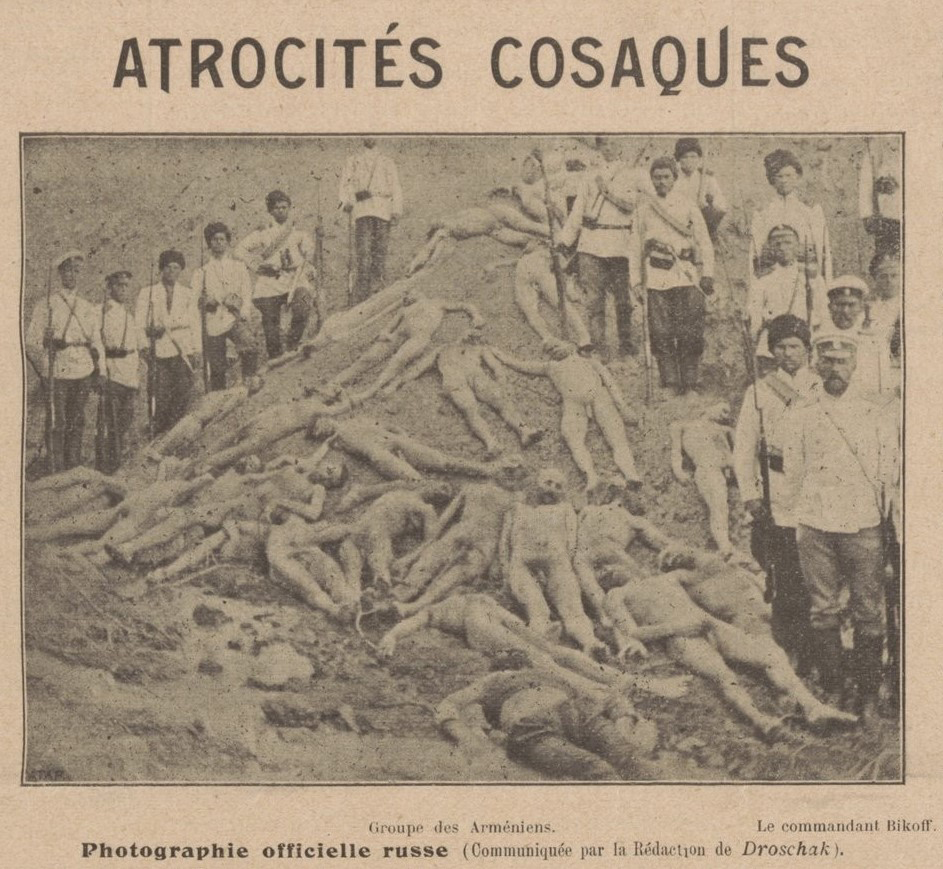 Russian soldiers under the command of Lt Col F.Bykov next to the bodies of Armenian militants, who were killed by the Russian border guards when trying to cross Russo-Ottoman border.